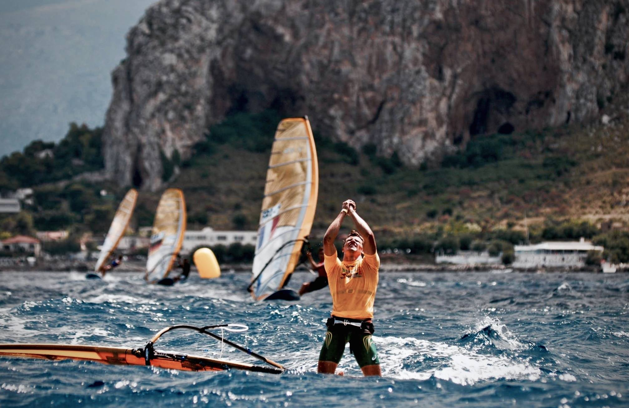 Pawel Tarnowski (sailor) after the final start in Mondello, Sicily in 2015, then he won the gold medal in the European Championships in the RS: X class.